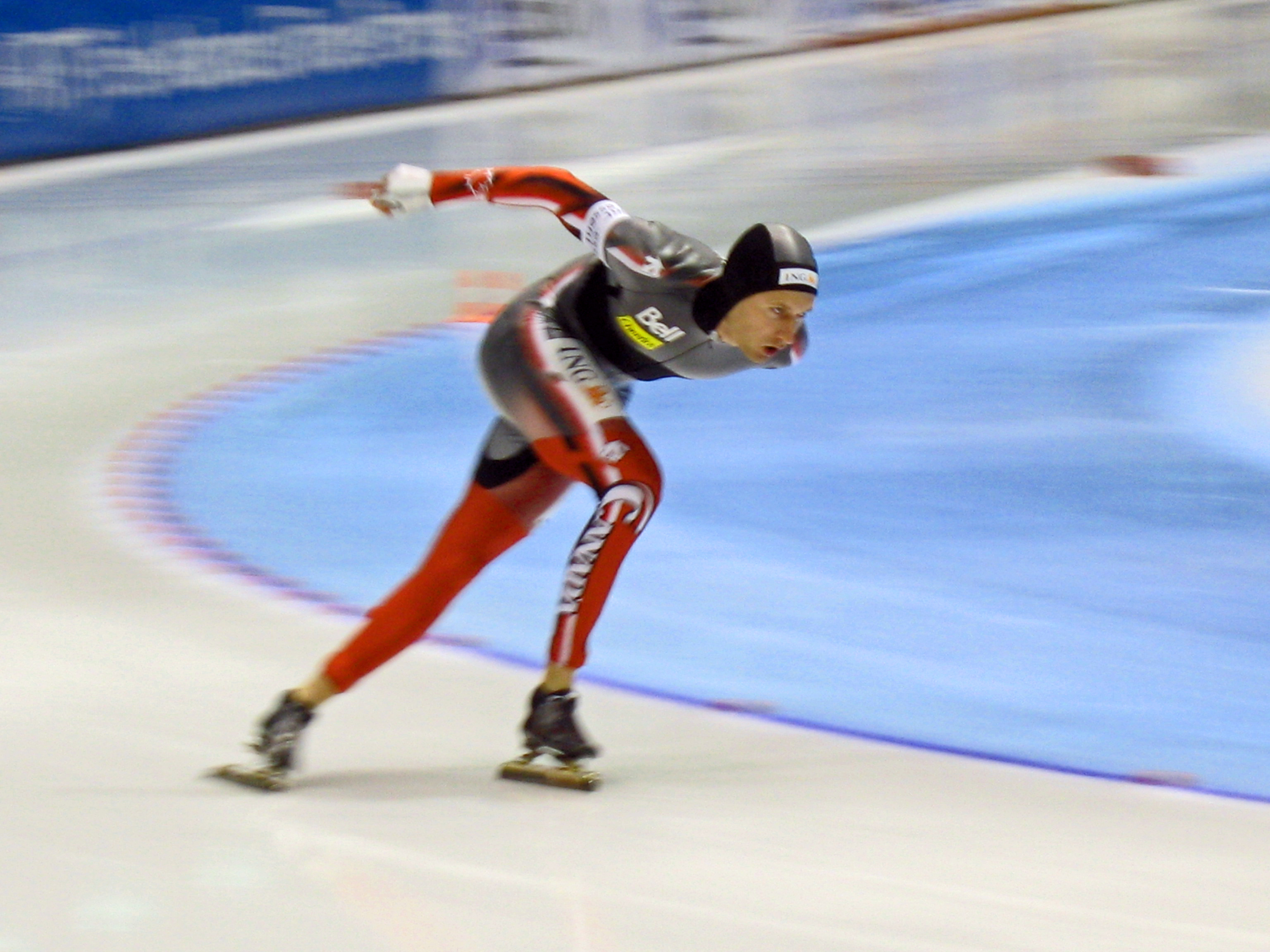 Steven Elm (Canada) racing in the 5.000m World Cup Heerenveen november 2008